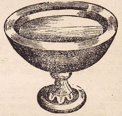 the Laver of brass (Exodus 30:18 KJV)